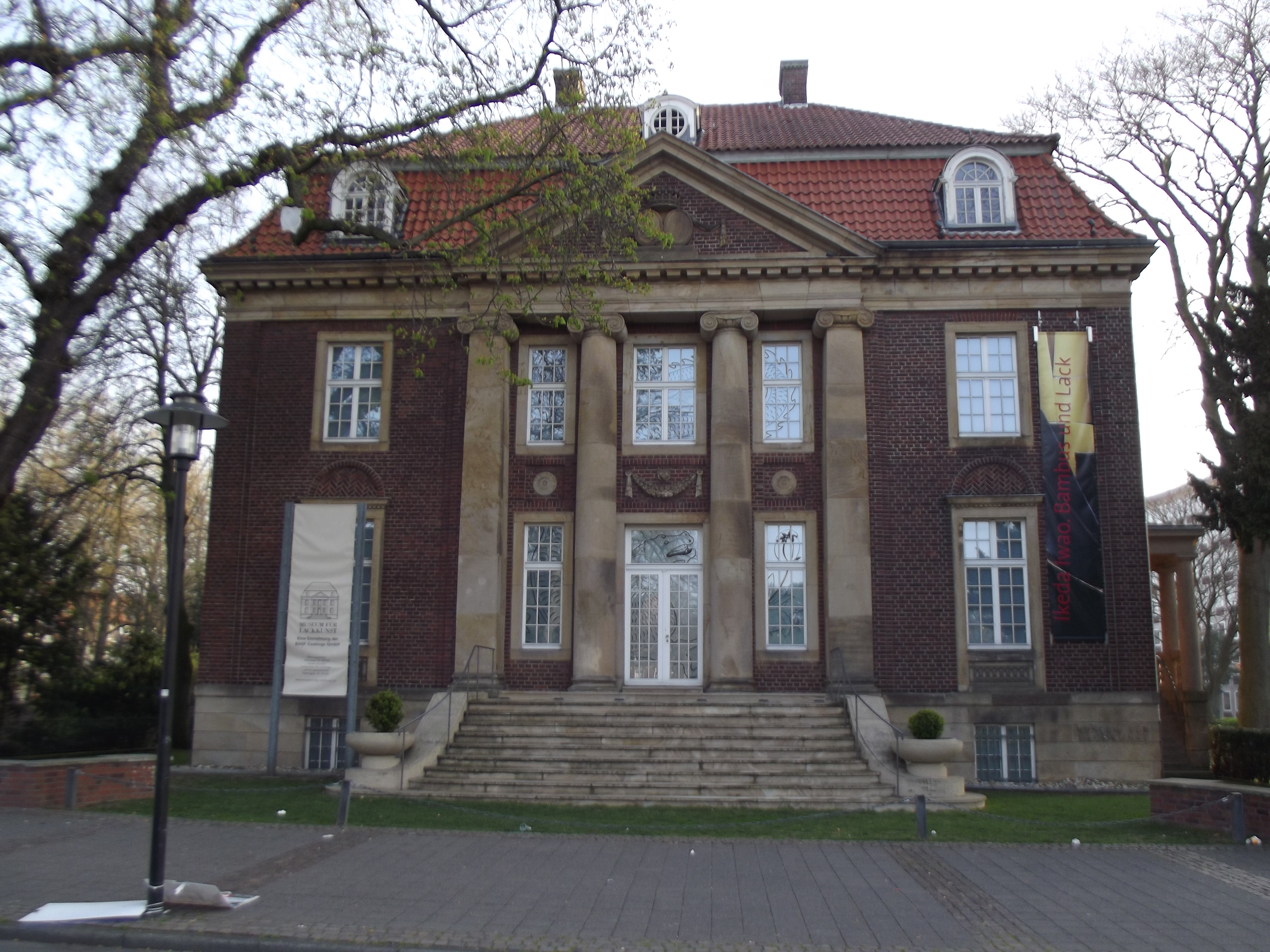 A special museum in Münster dedicated to lacquer.